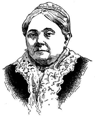 Harriet G. Brittan, from an 1898 publication.